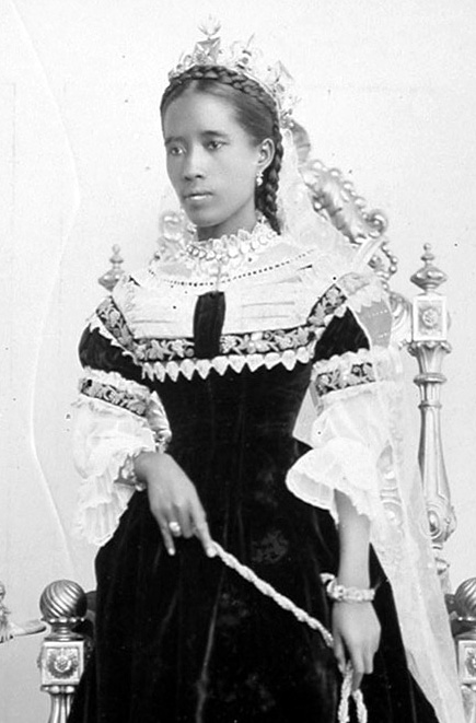 Queen Ranavalona III standing beside a throne table which her crown is lying on. She is wearing a beautiful royal gown which has some embroidery on it. Her hair is braided.